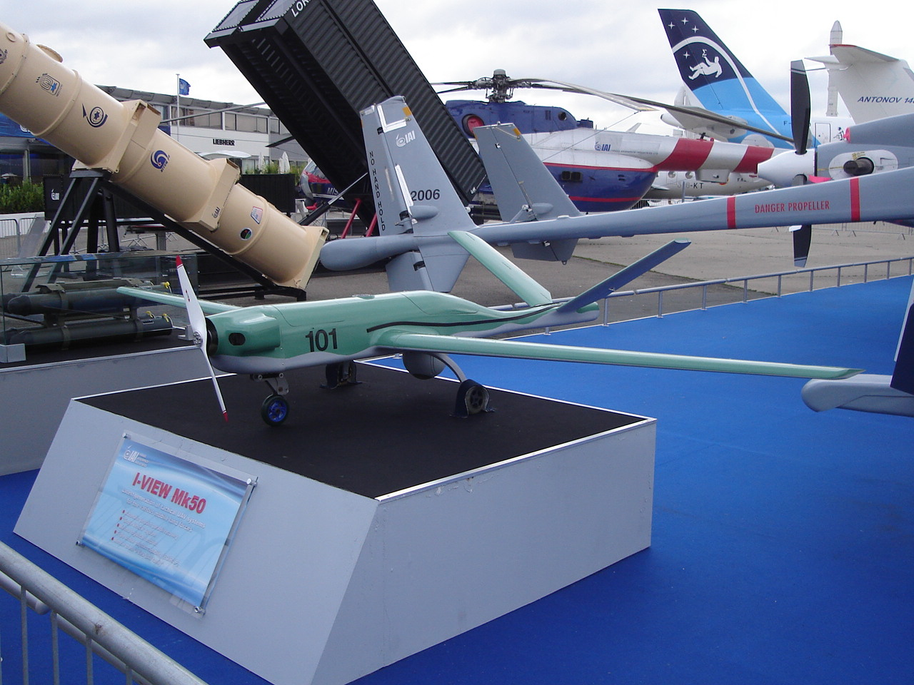 I-View Mk50 unmanned aircraft by Israel Aerospace Industries at the 2007 Paris Air Show